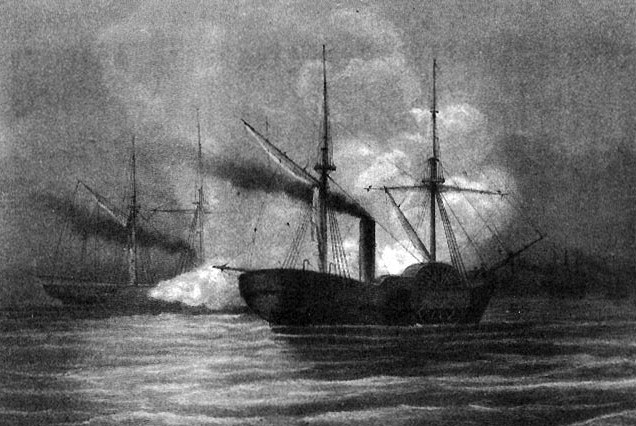 From U.S. Navy public domain Photo #: NH 42372 USS Hatteras (1861-1863) -- in center In action with CSS Alabama, off Galveston, Texas, on 11 January 1863. Lithographed by A. Hoen & Co., Baltimore, Md. Hatteras was sunk in this engagement. U.S. Naval Historical Center Photograph.